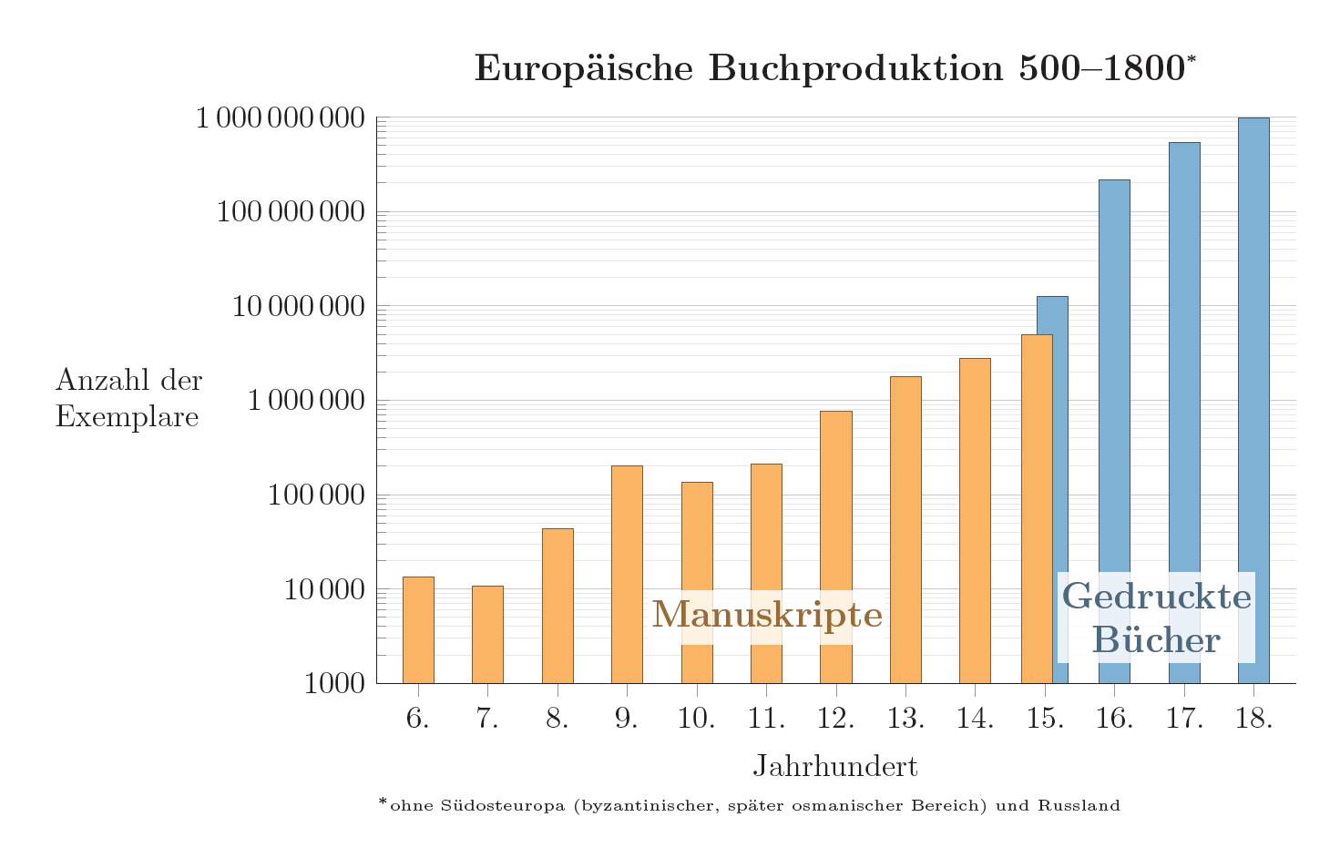 Estimated European output of books from 500 to 1800. Manuscripts do not include individual deeds and charters. A printed book is defined as printed matter containing more than 49 pages.